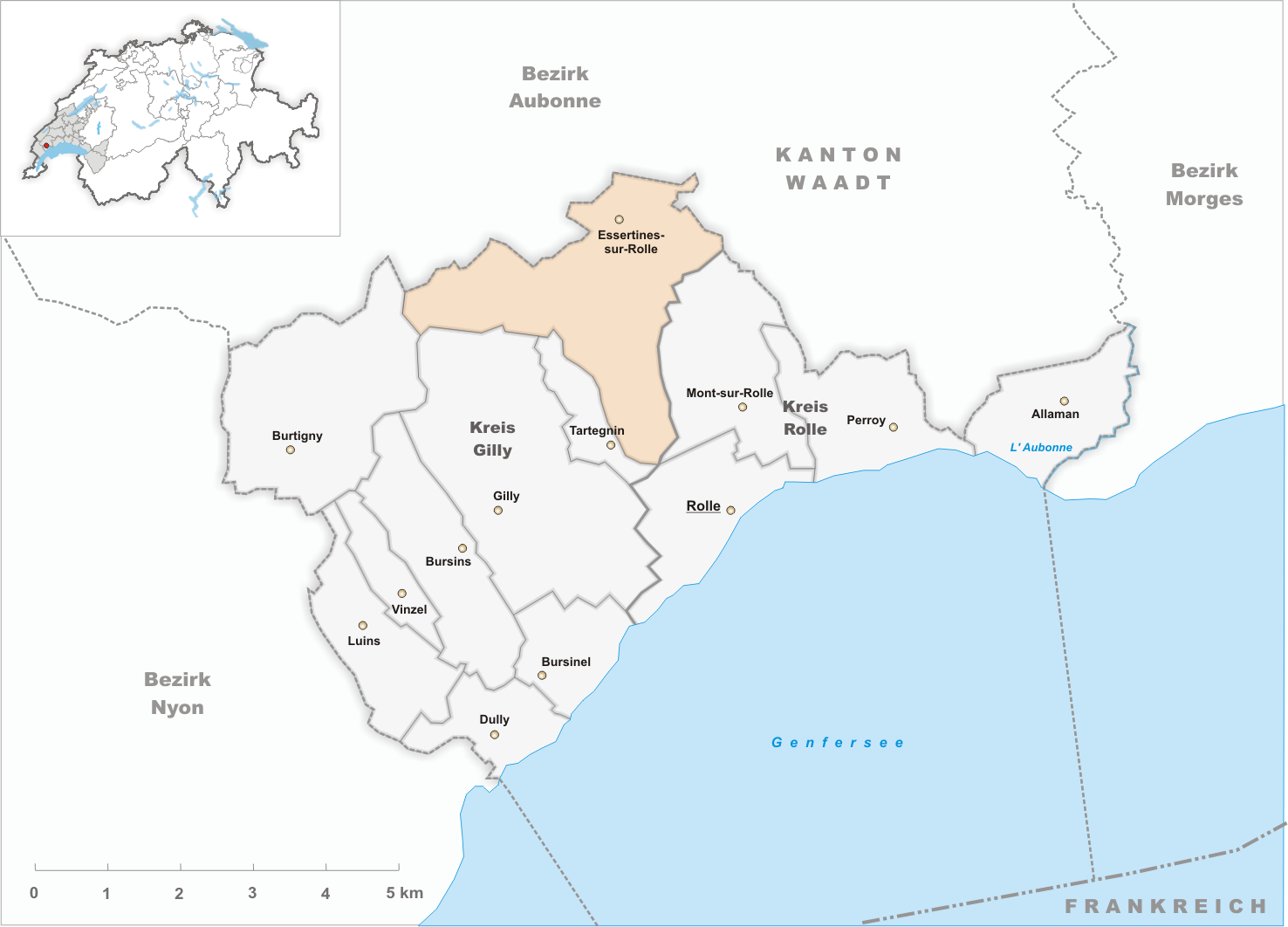 Municipality Essertines-sur-Rolle